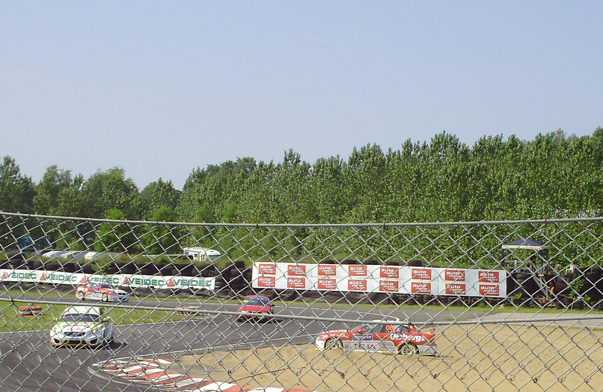 Jan "Flash" Nilsson of the track in the chicane in the first race in Swedish Touring Car Championship at Falkenbergs Motorbana 2010.